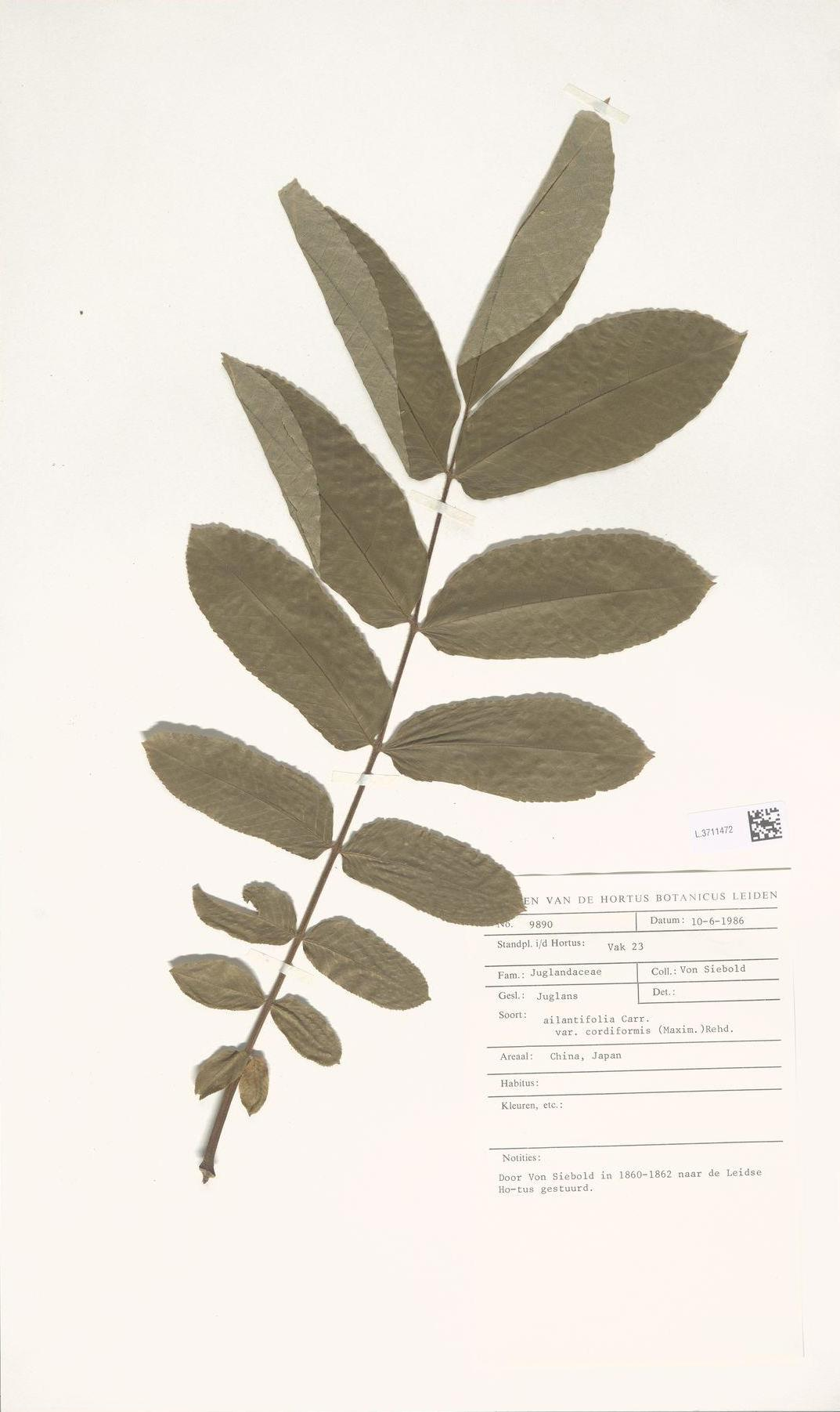 Juglans ailantifolia Carrière var. cordiformis (Makino) Rehder